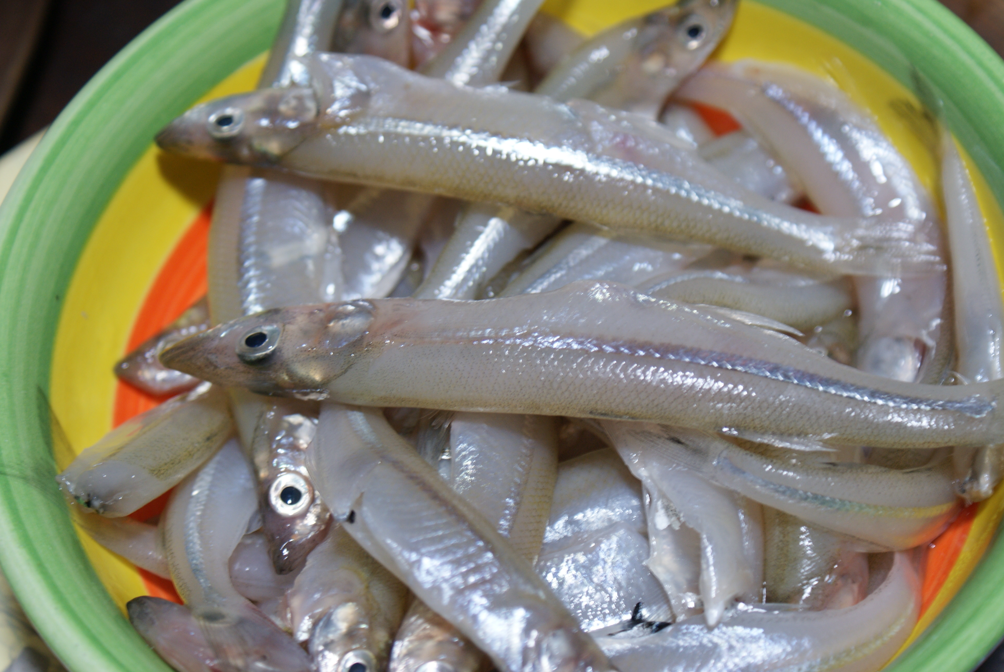 Charales from lake Chapala